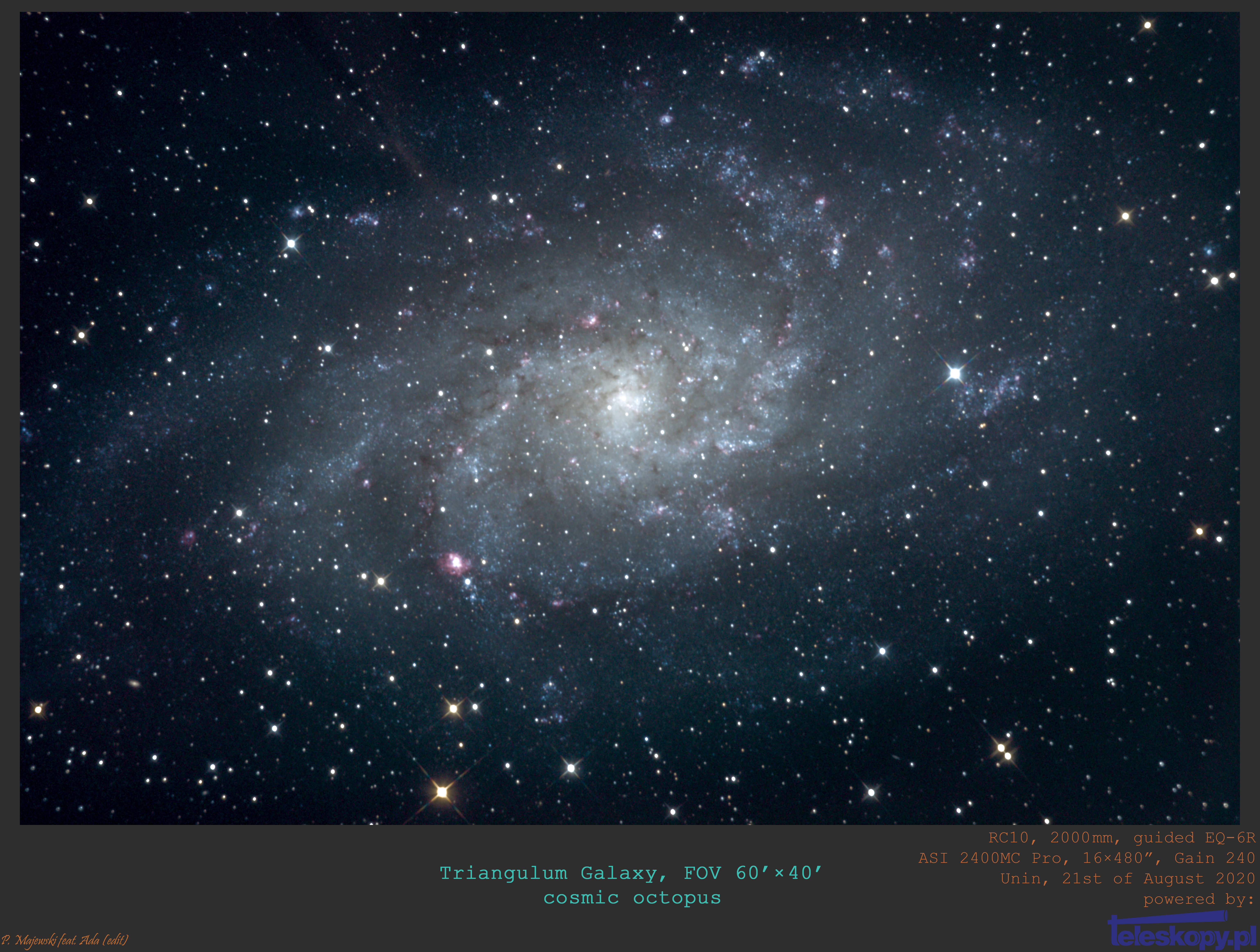 Amateur astrophotography of Triangulum Galaxy taken in countryside, Poland, with an RC 10" scope (2000 mm) and ASI2400MC Pro astro camera. Guiding on an EQ-6R Pro mount. 128 minutes of exposure time.